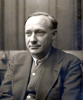 Nuremberg, Germany, The defendant Bernhard Weiss during the Industrialists Trial, 10/02/1947